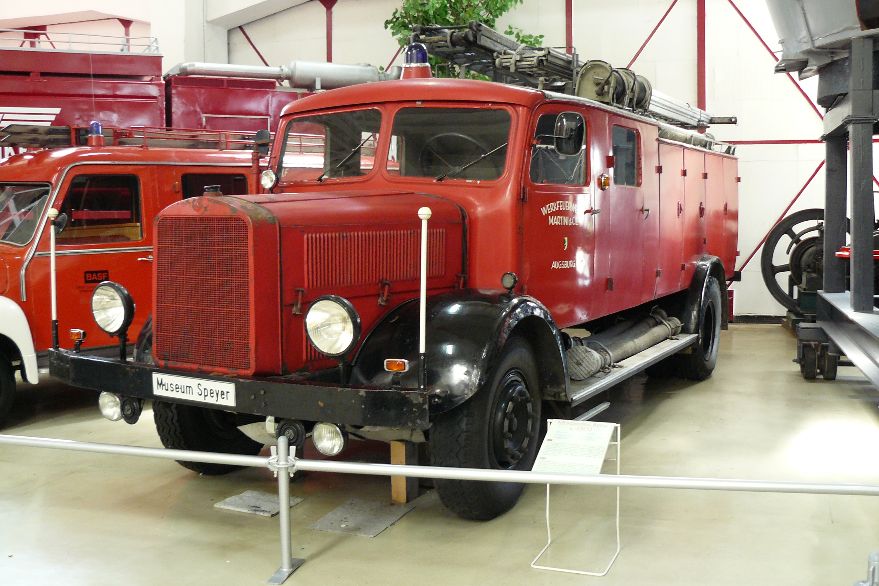 Mercedes Benz L4500 firetruck. Built in 1942. Due to raw material shortages during the war, all unnecessary items were eliminated. The cabin is made of fibre board. After a short break after the war the truck came back in production. In 1949 the truck was replaced by the L5000 with a 5 tons payload.